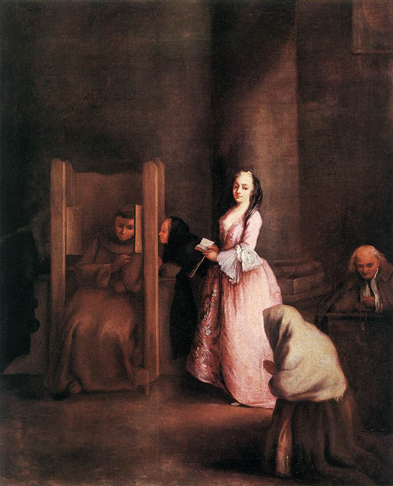 The Confession